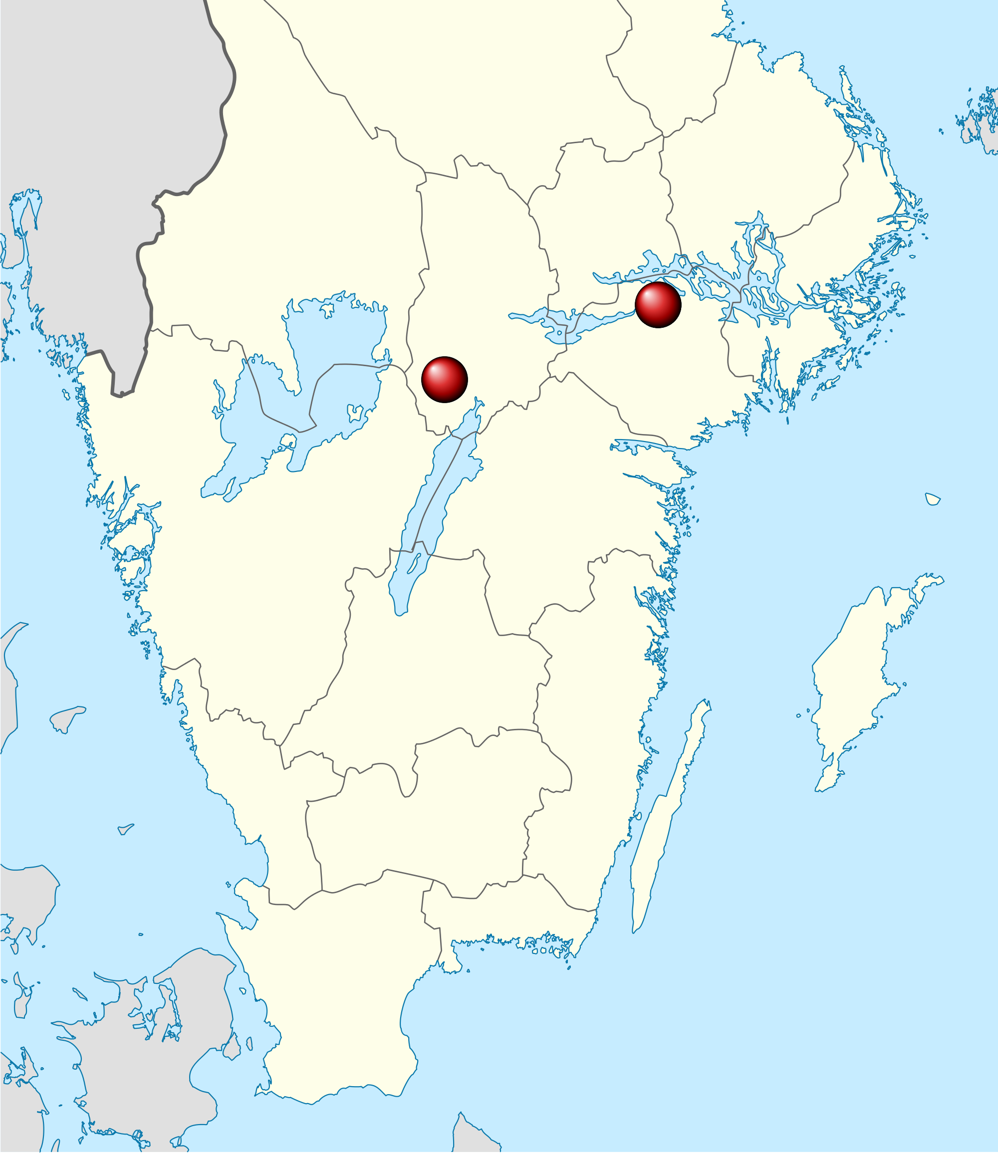 "Gnällbältet" in Sweden, from Laxå in the west to Kjula/Jäder in the east.